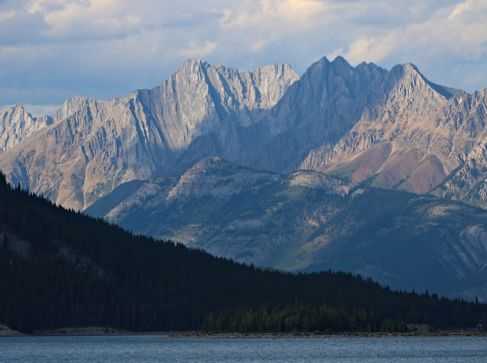 Mount Evan-Thomas and Mount Packenham in Alberta Canada seen from Kananaskis Lake